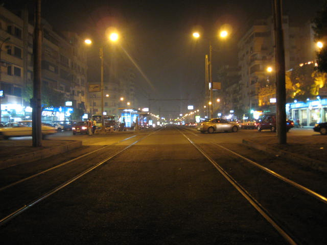 ......... to life Temp.: 23°C Humid:78% ...I like this without smoke